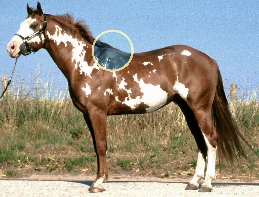 Image showing the location of the withers